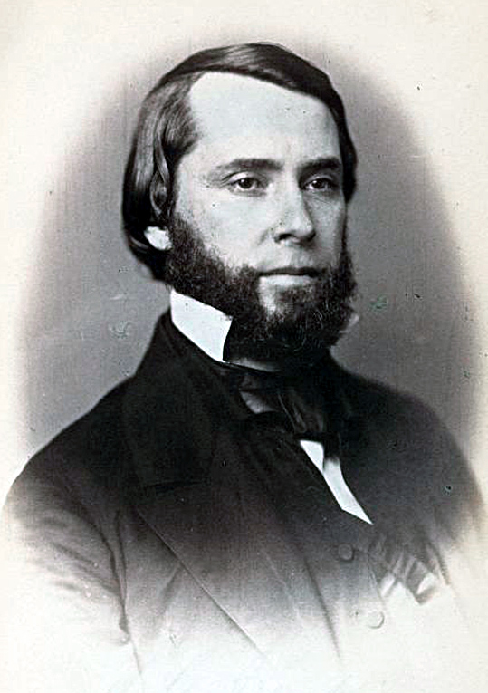 Sherrard Clemens, US Representative from Virginia